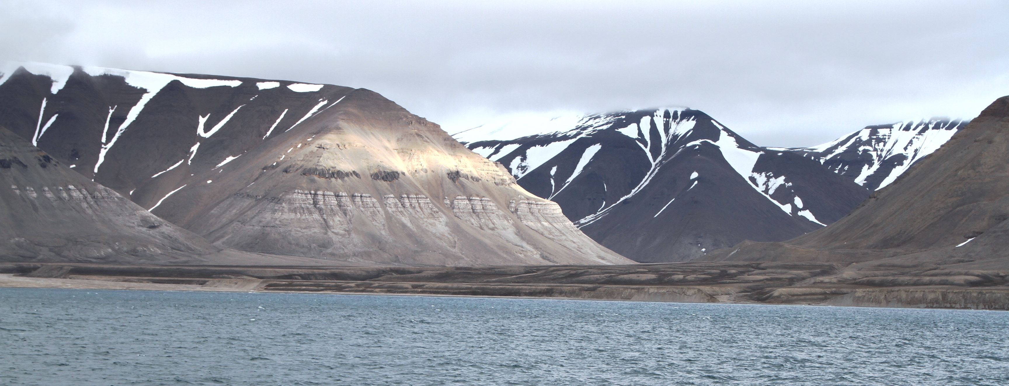 Western coast of Bünsow Land, seen from Billefjorden - inner Isfjorden in central Spitsbergen.